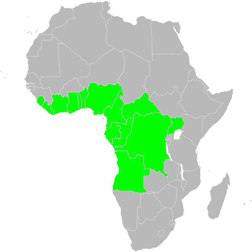 Native distribution of the Safou